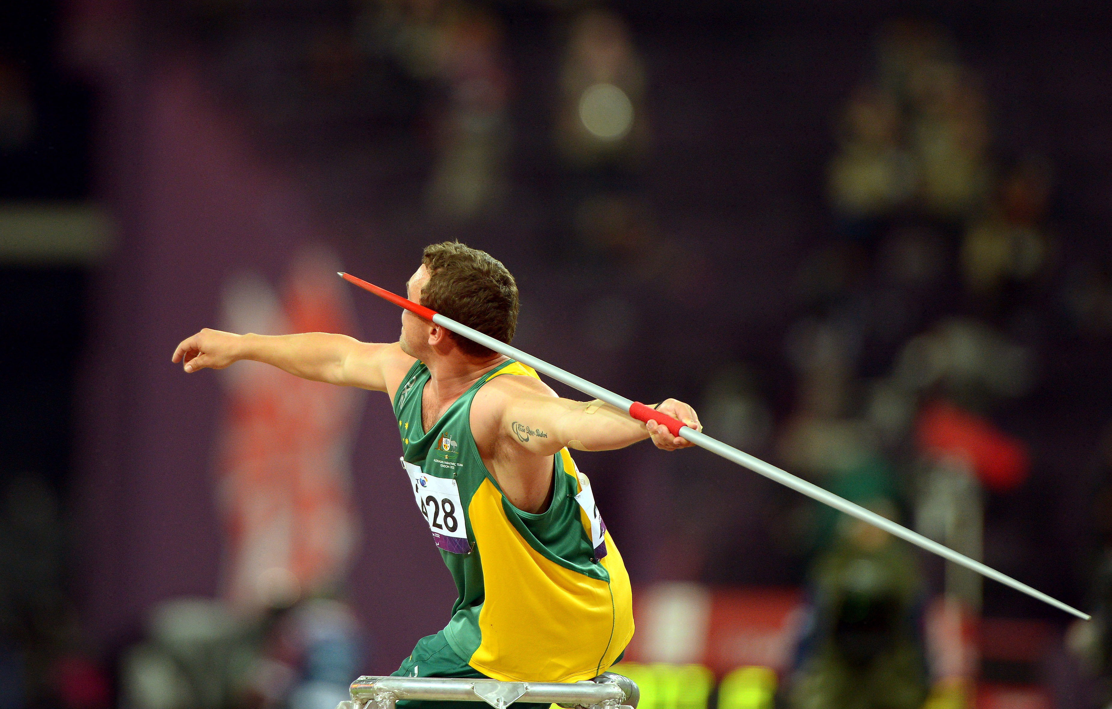 Photograph of Australian Paralympic team member Damien Bowen at the 2012 Summer Paralympic Games in London